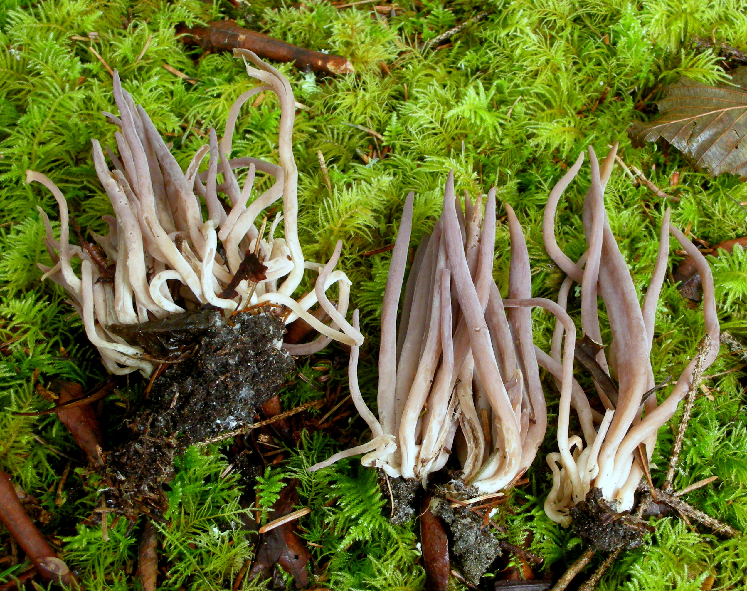 Alloclavaria purpurea (Fr.) Dentinger & D.J. McLaughlin